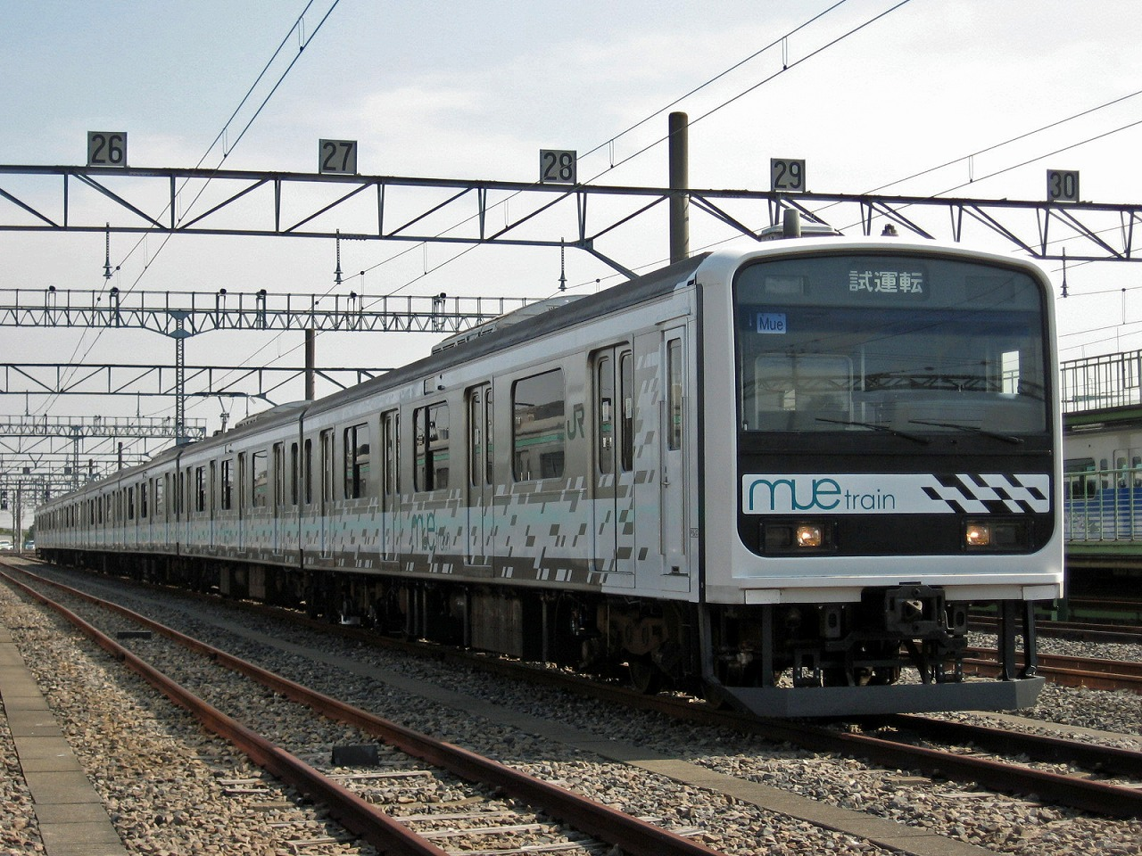 209 series experimental MUE-Train at Kawagoe Depot public open day